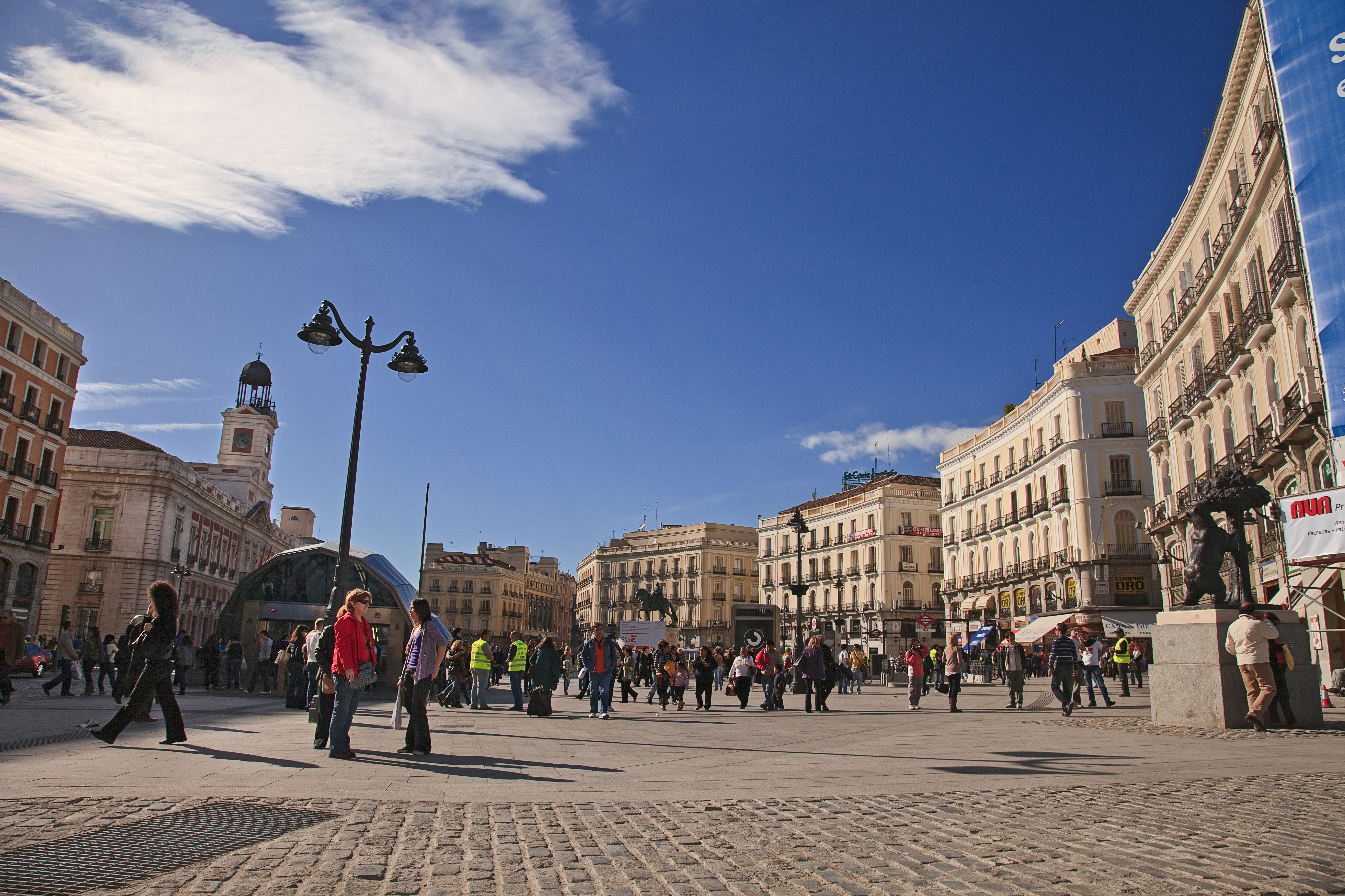 Puerta del Sol (square) in Madrid (Spain).